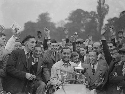 Prince Bira of Siam celebrating after winning the Road Racing Club's Imperial Trophy Race at Crystal Palace Oct 1937